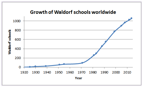 Same as File:Growth_of_Waldorf_Schools_Worldwide.png but without the annotation